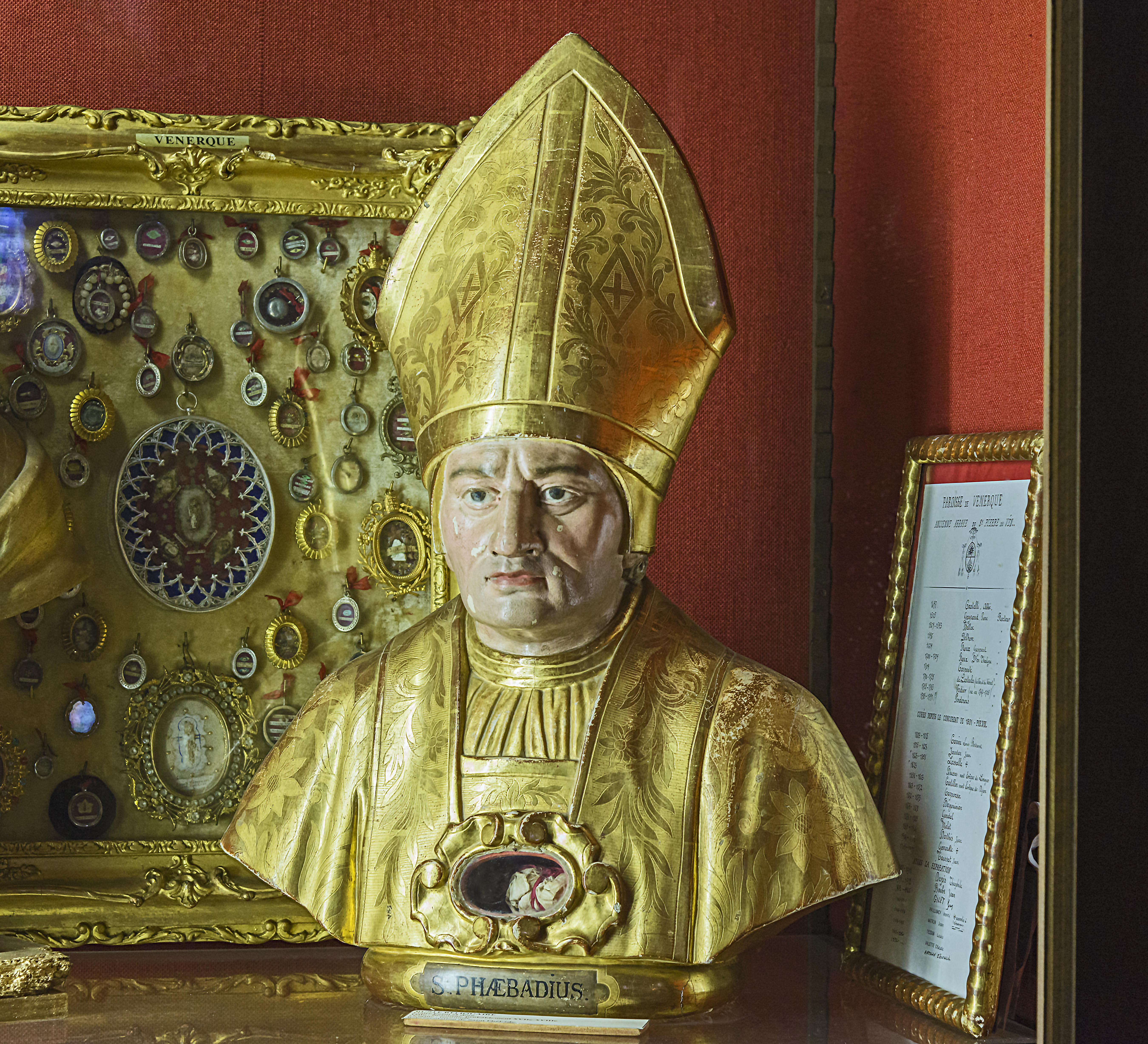 Venerque. Church Saint-Pierre-et-Saint-Phébade. Part of the treasure of St Phébade and Reliquary of St. Phébade